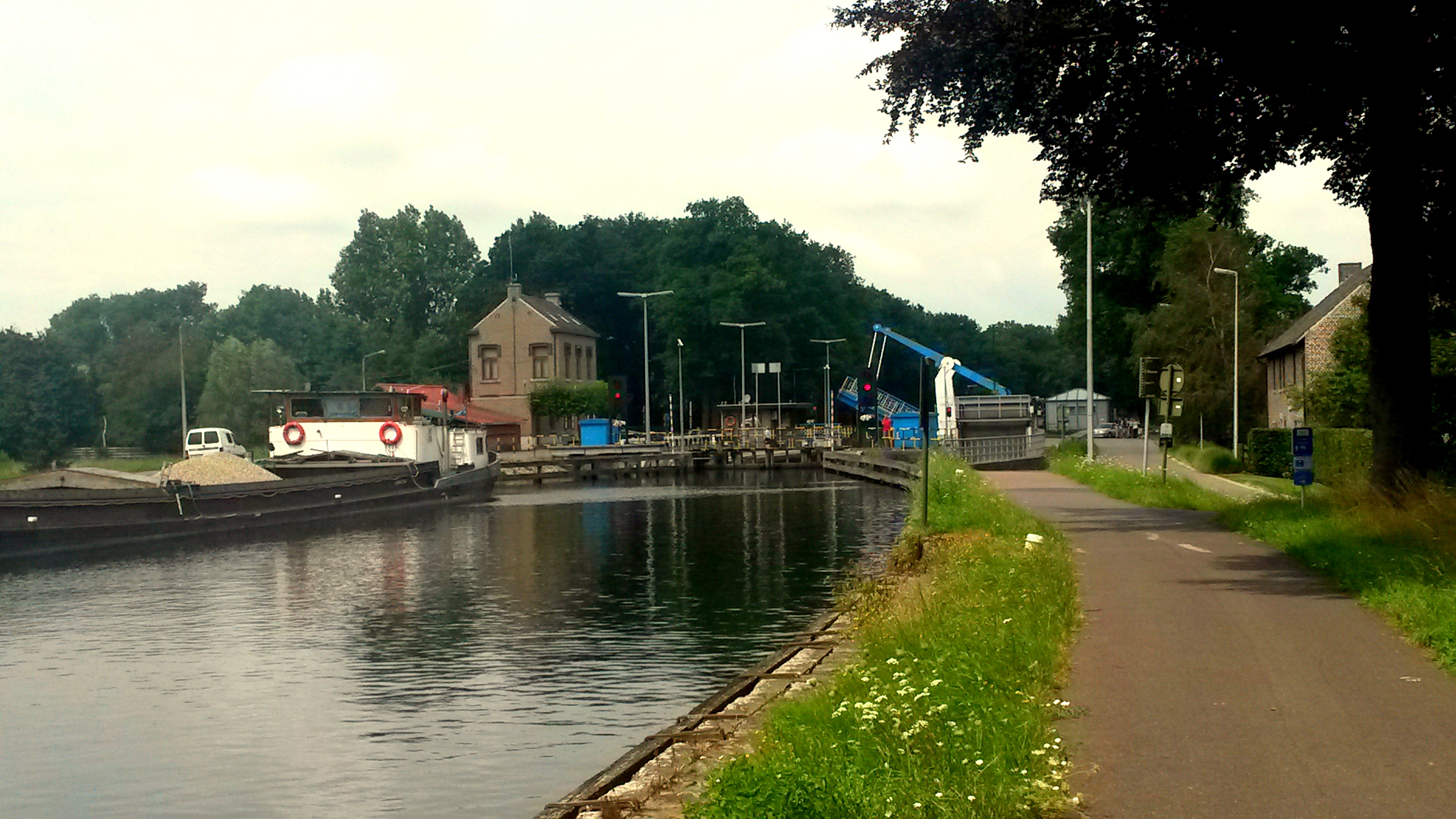 2014-07-25 Sluis (canal lock) 18 in Zuid-Willemsvaart; Snellewindstraat Bocholt